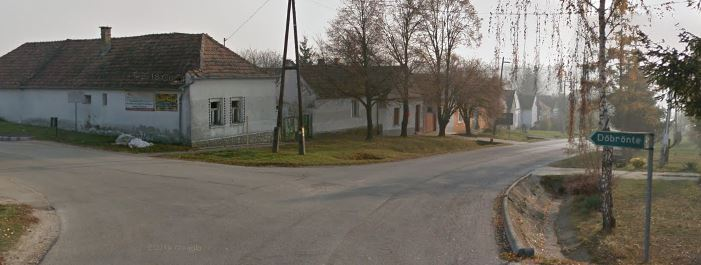 Ganna, Hungary